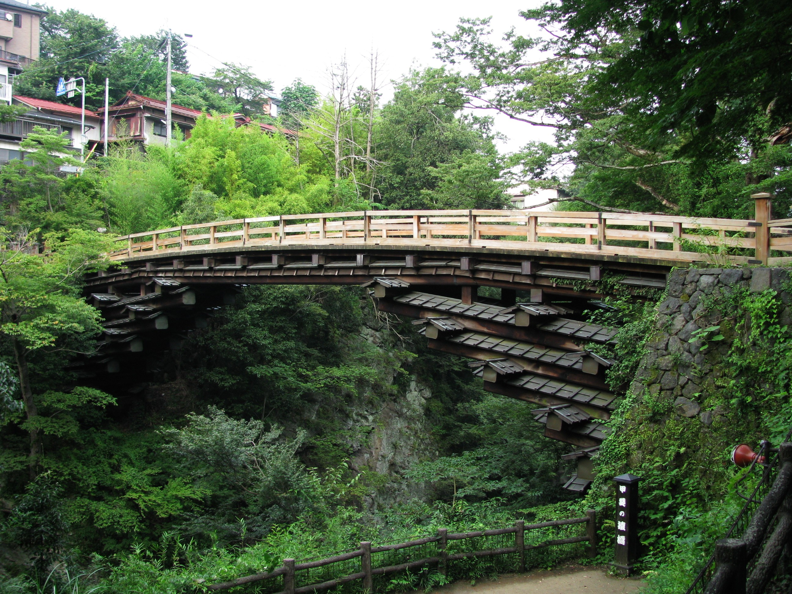 The Saru-hashi (Monkey bridge) is a bridge of the old Kōshū Kaidō. This location is Saruhashichō-Saruhashi in Ōtsuki, Yamanashi Prefecture, Japan.